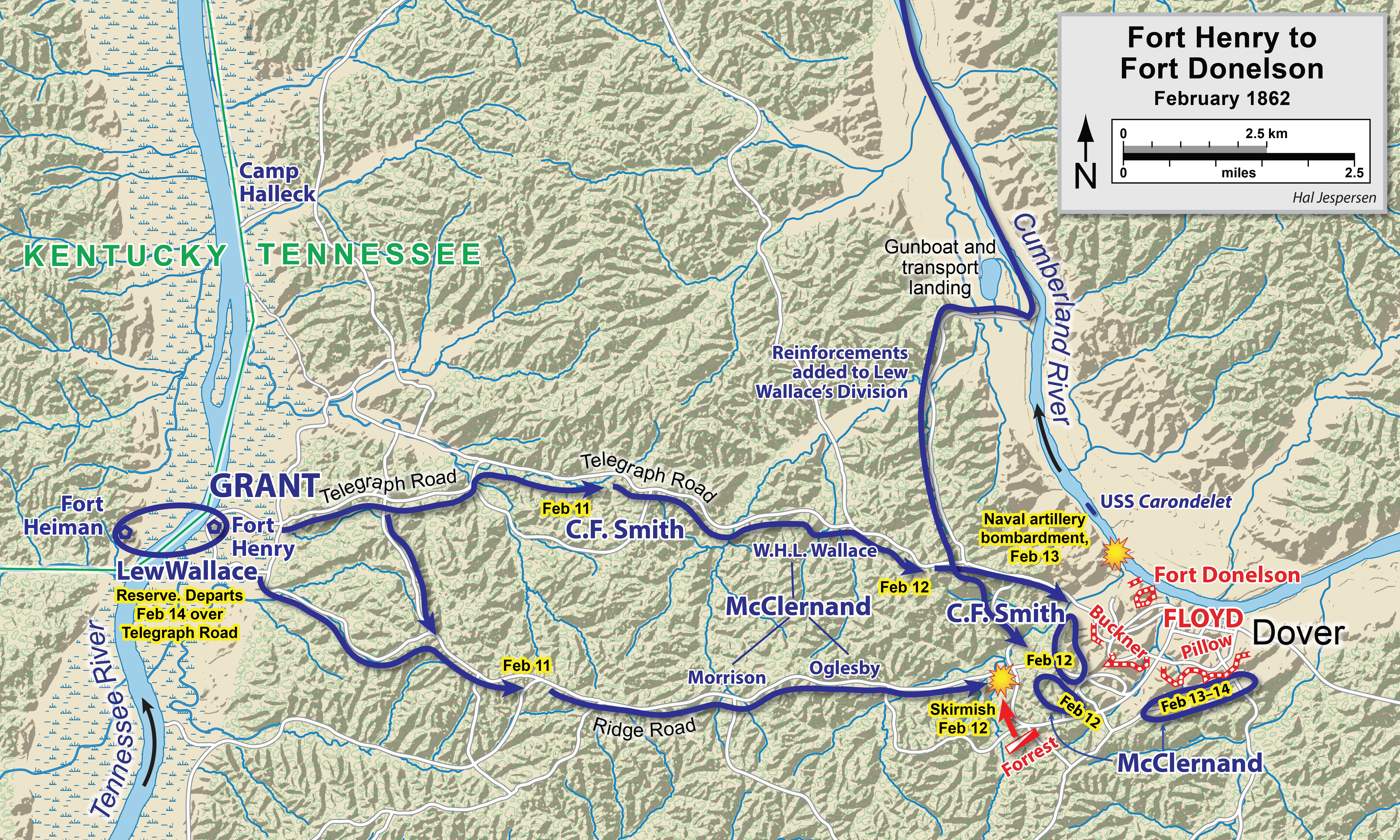 This map shows the approach of the union troops to Fort Donelson beginning with the attack of Fort Henry